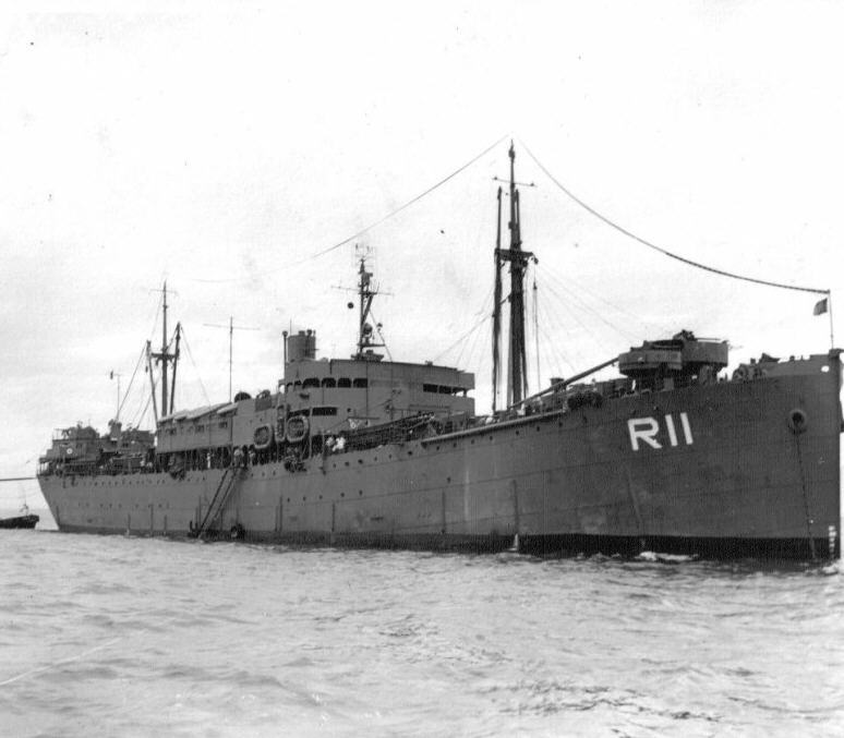 The U.S. Navy repair ship USS Rigel (AR-11) at anchor in Manila Bay, Philippines, late fall 1945.